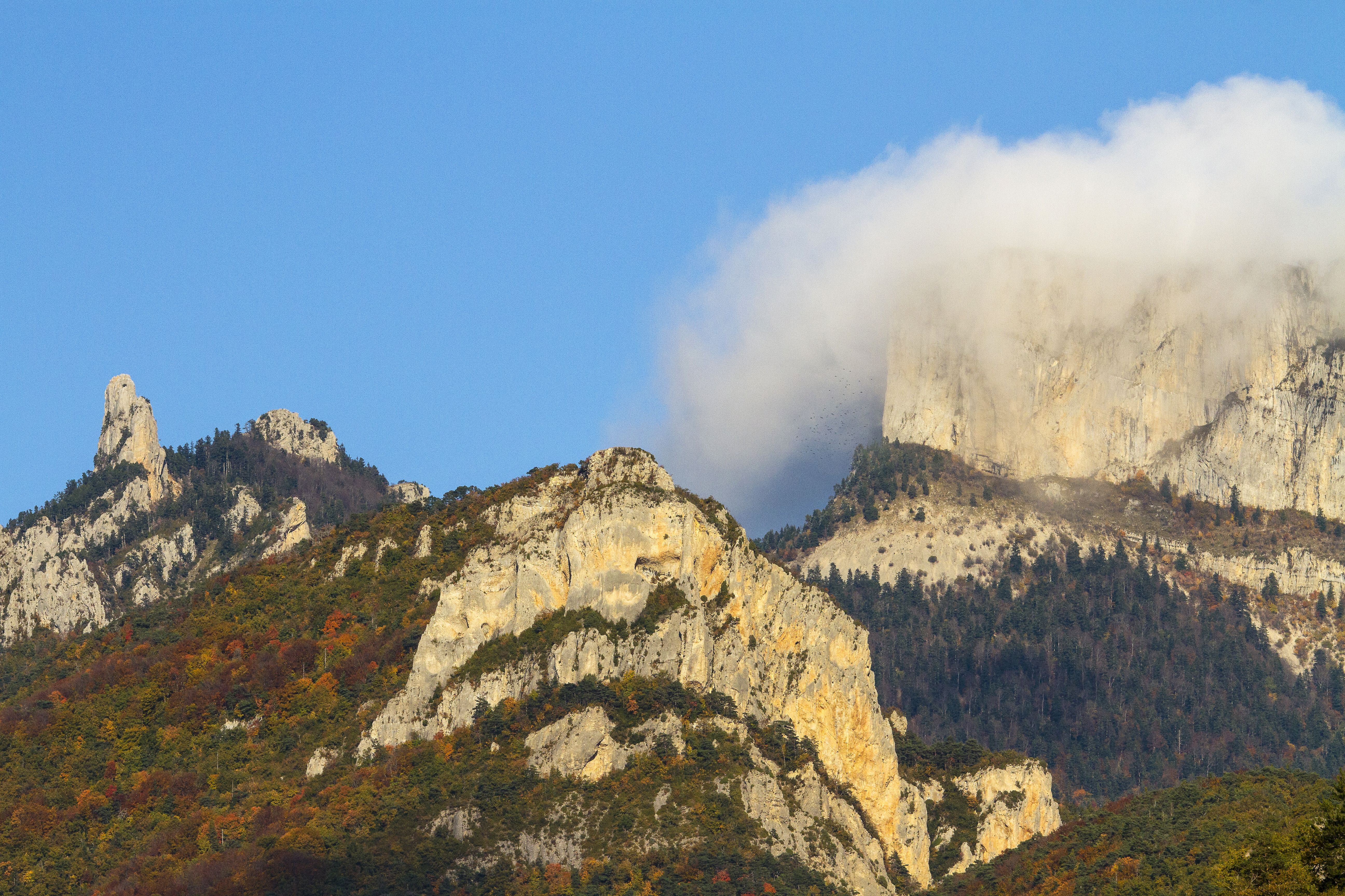 The "Dent de DIE", a flight of "Alpine Chough" in the cap of cloud on the cliffs of Glandasse and the tray of Vercors.